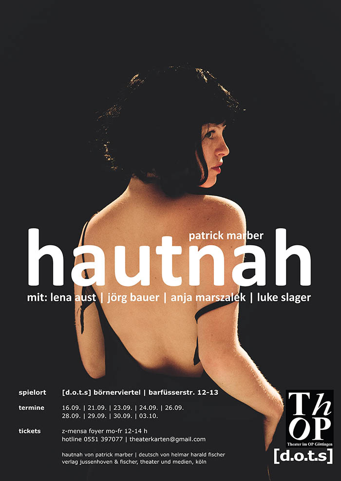 Poster Closer, Play by Patrick Marber, Theater im OP, Göttingen, Germany 2015